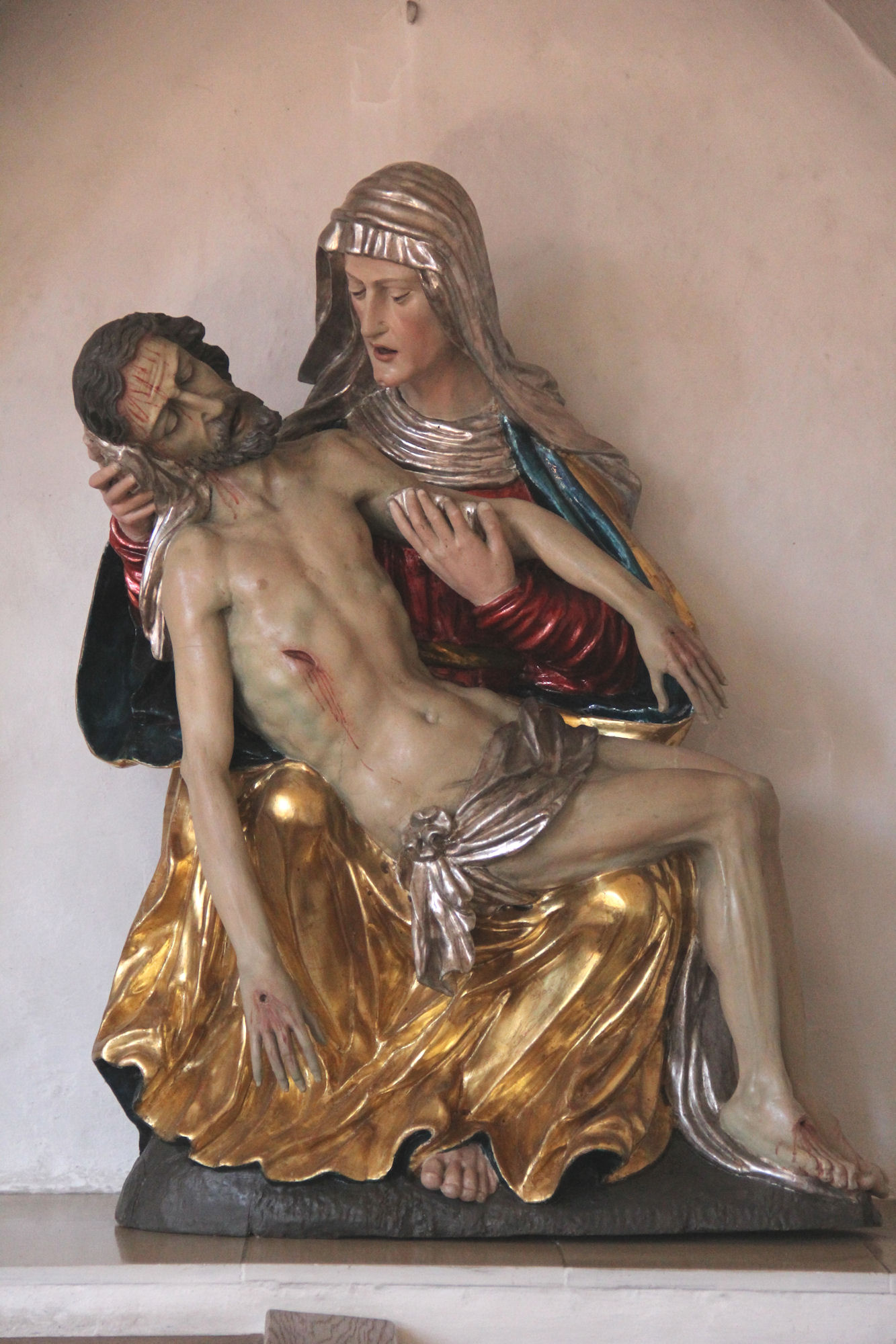 Church of St. John the Baptist Native nameSt. Johannes BaptistLocationZolling, Upper Bavaria, GermanyCoordinates48° 26′ 59.28″ N, 11° 46′ 15.24″ E Authority control : Q2319336 institution QS:P195,Q2319336